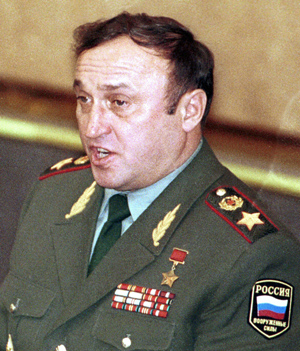 Russian Defence Minister Pavel Grachev speaking in the State Duma, lower house of parliament.